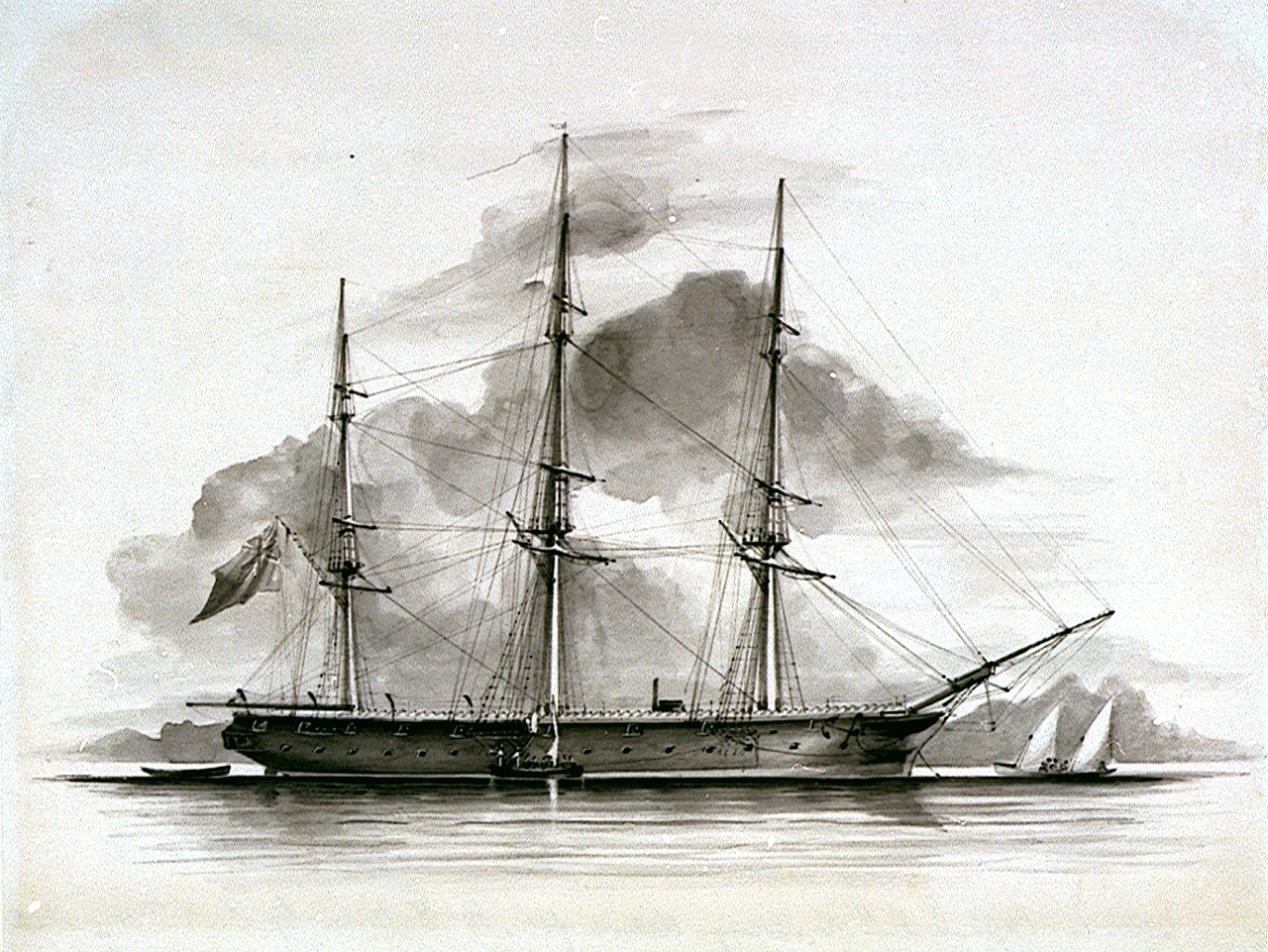 Brisk 14. Capt A F R de Horsey drawn for Mrs Fullerton by A C Drew. 1860 Vignette.